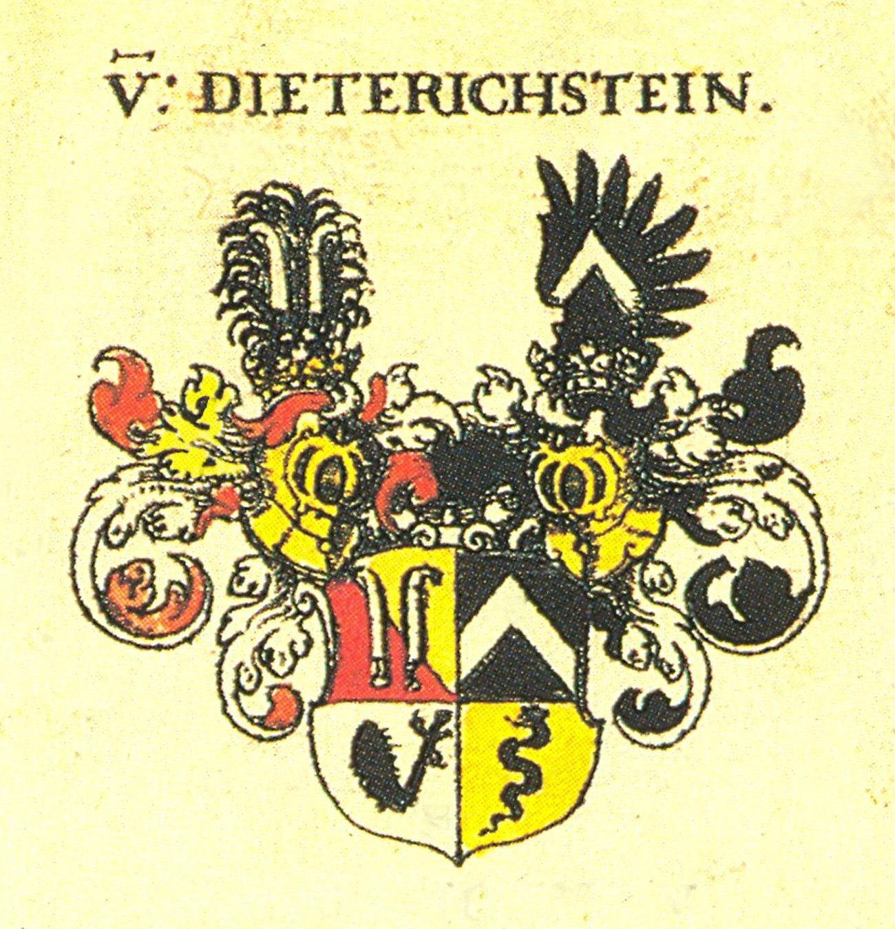 Coats of Arms of Dietrichstein (Barons)